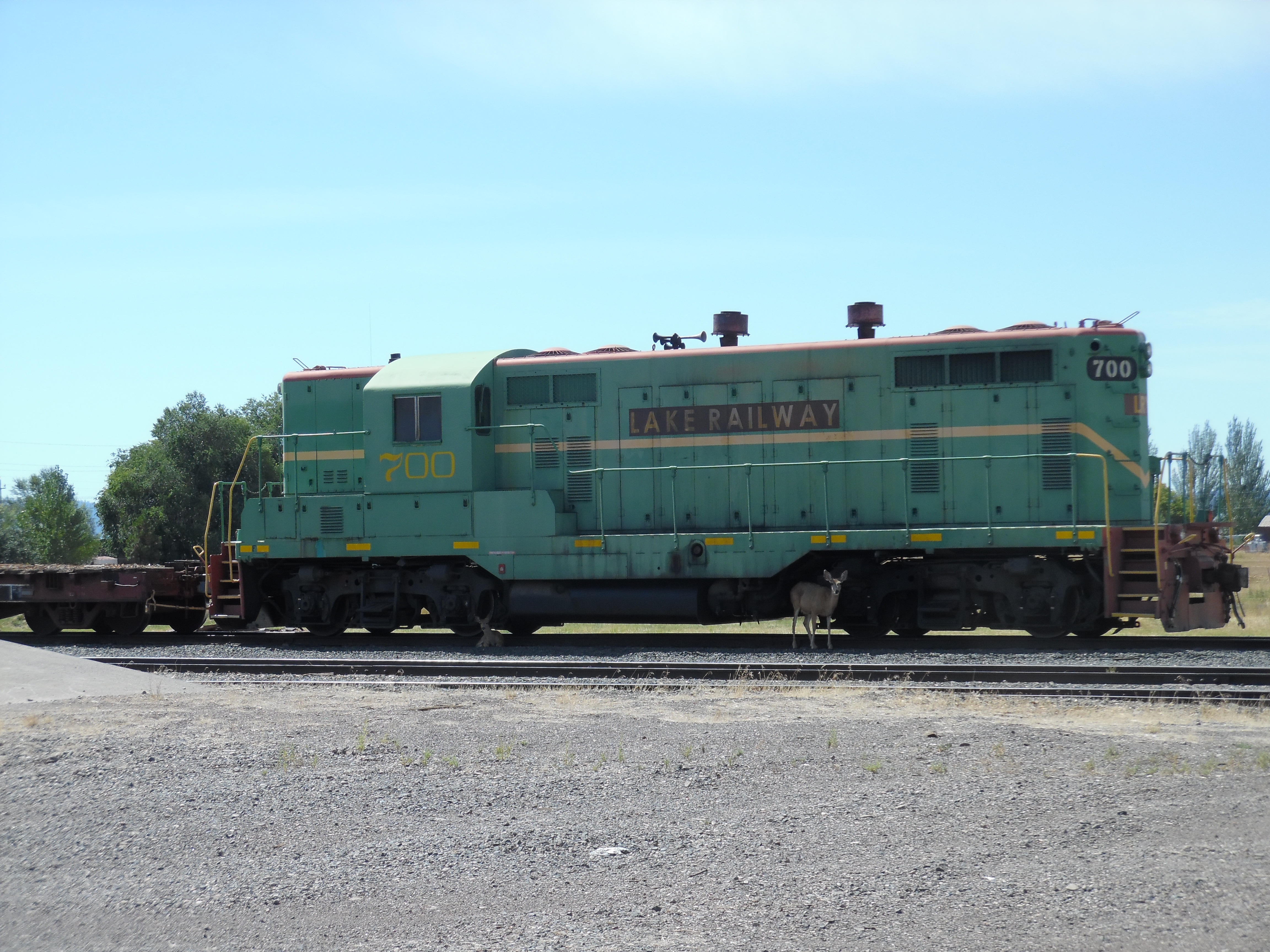 Lake County Railroad engine in the rail yard in Lakeview, Oregon. Notice that there are two deer sheltering in the shade under the engine.